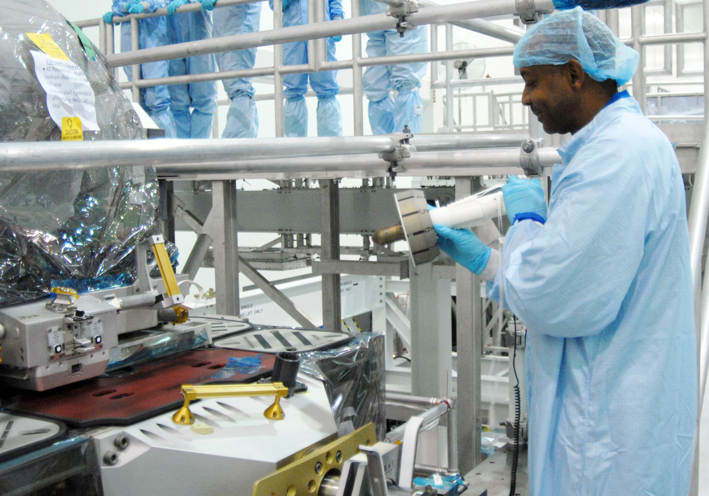 CAPE CANAVERAL, Fla. – In NASA Kennedy Space Center's Space Station Processing Facility, STS-129 Mission Specialist Robert Satcher becomes familiar with equipment installed on the Express Logistics Carrier, or ELC. The crew is at Kennedy for a Crew Equipment Interface Test, which provides hands-on training and observation of shuttle and flight hardware. The carrier is part of the STS-129 payload on space shuttle Atlantis, which will deliver to the International Space Station two spare gyroscopes, two nitrogen tank assemblies, two pump modules, an ammonia tank assembly and a spare latching end effector for the station's robotic arm. STS-129 is targeted to launch Nov. 12.